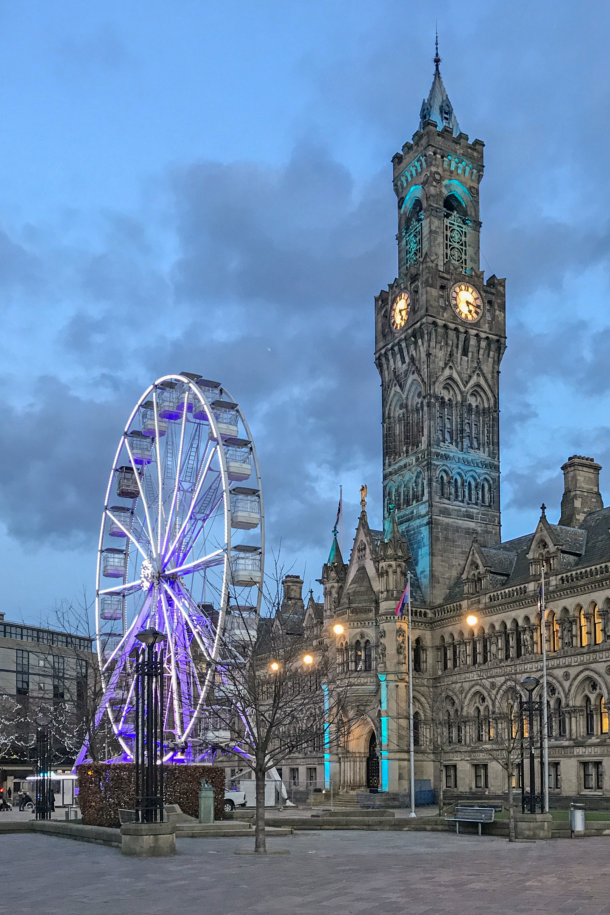 Bradford City Hall and ferris wheel